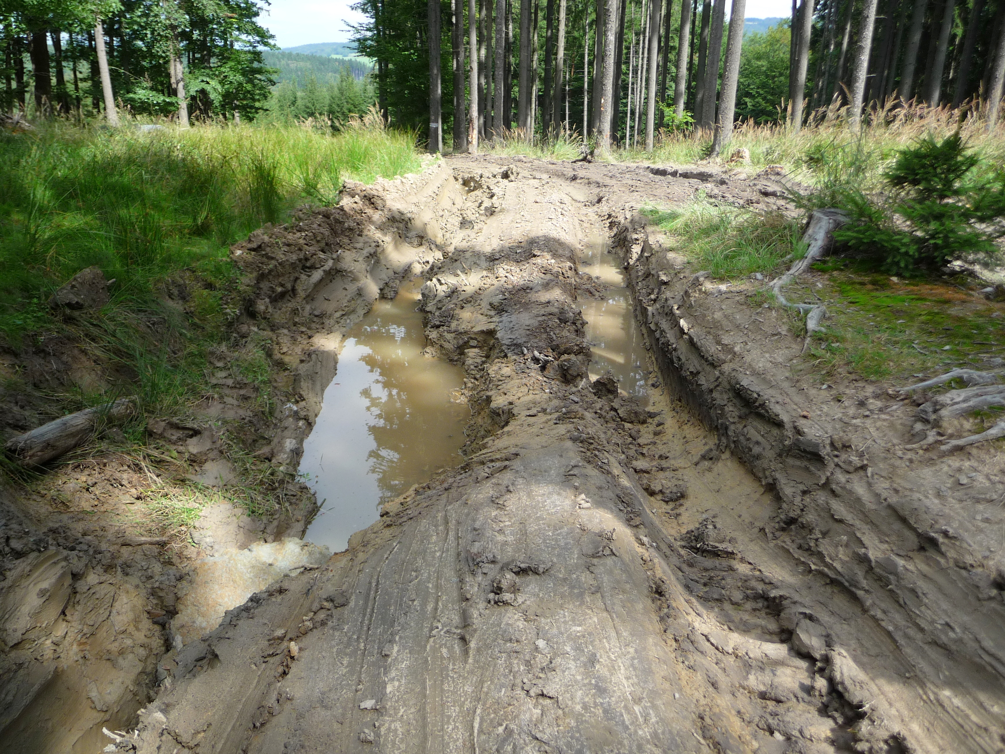 Dirty road after pulling log by skidder, Ondřejovko, Zlín District